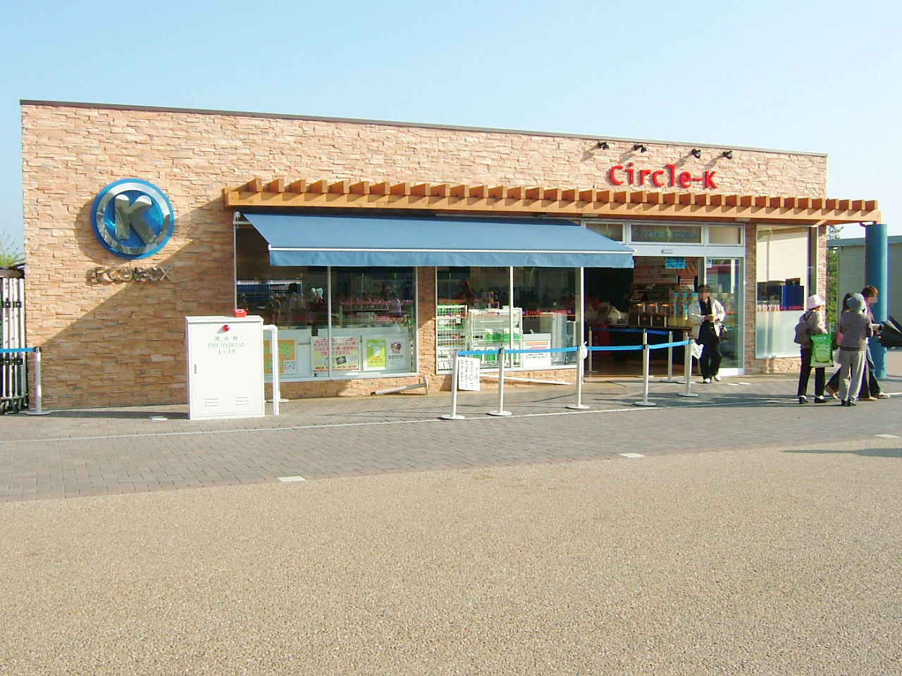 EXPO 2005 of Circle-K.